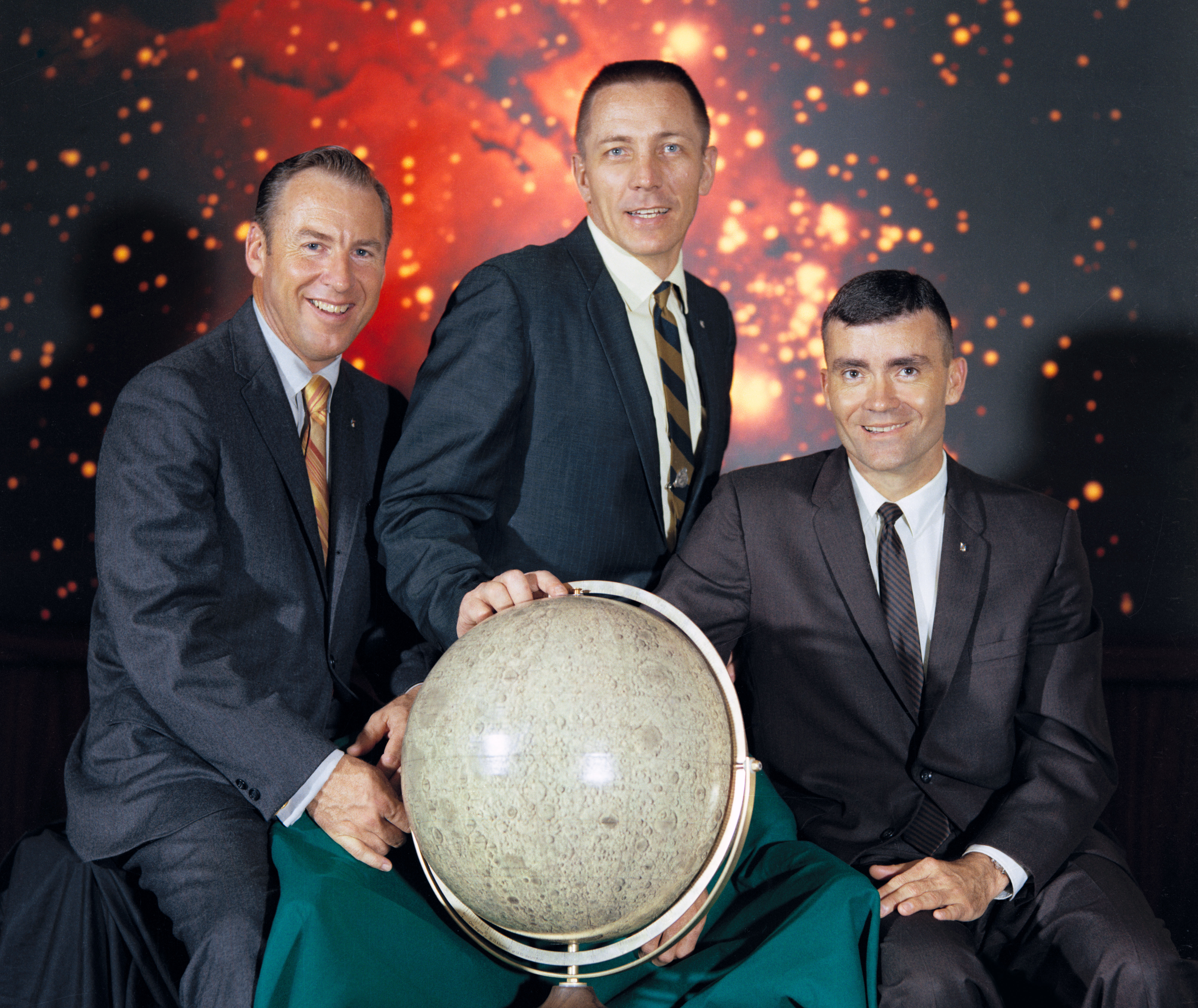 The actual Apollo 13 lunar landing mission prime crew from left to right are: Commander, James A. Lovell Jr., Command Module pilot, John L. Swigert Jr., and Lunar Module pilot, Fred W. Haise Jr. The original Command Module pilot for this mission was Thomas "Ken" Mattingly Jr., but due to exposure to German measles he was replaced by his backup, Command Module pilot, John L. "Jack" Swigert Jr.